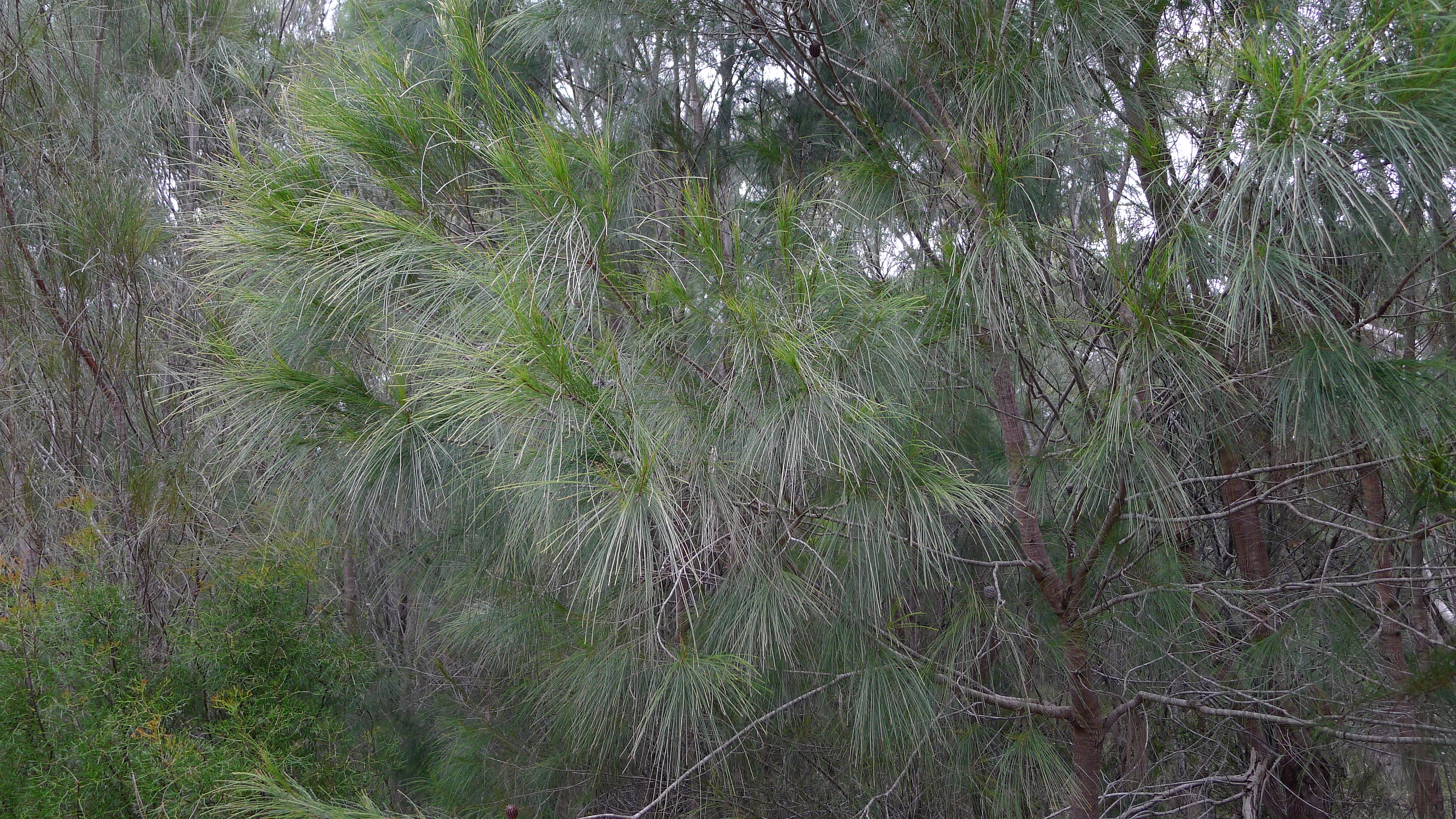 Leaves of a Black She-oak, Allocasuarina littoralis. Burnum Burnum Reserve, Jannali NSW Australia, May 2012.